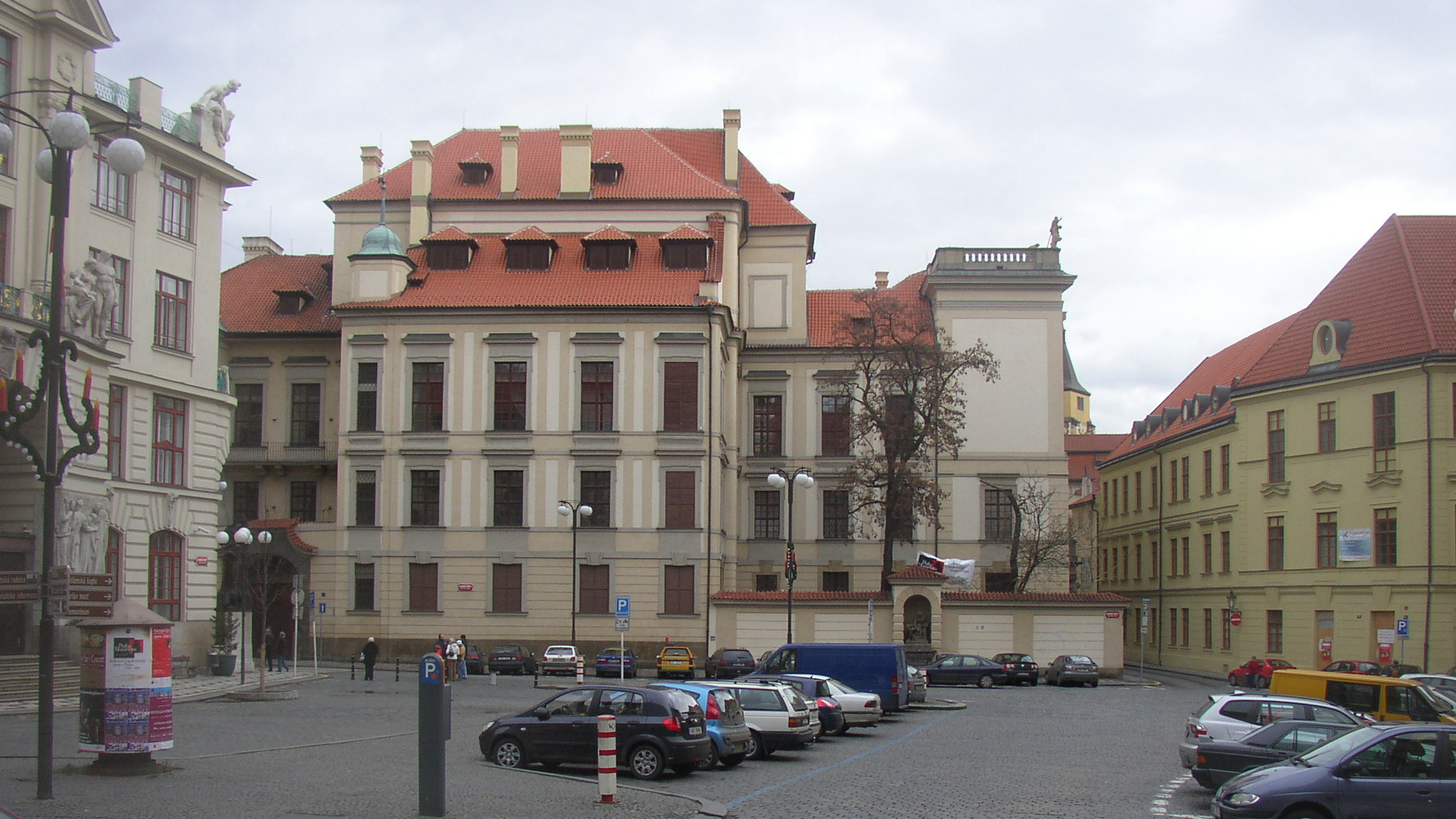 Clam-Gallas Palace in Old Town of Prague. A side view across Marian Square from Municipal Library toward south.